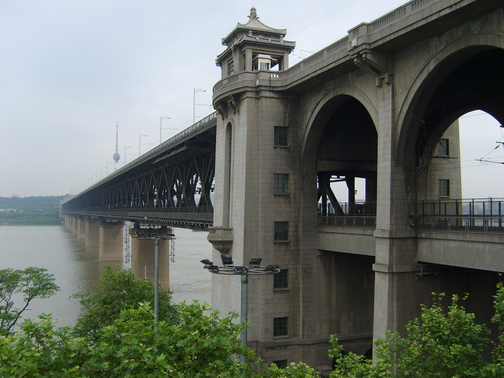 Officially known as Wuhan Changjiang Bridge, this is the first bridge across the Changjiang (the Yangtze River) in Wuhan. It connects Wuchang and Hanyang.